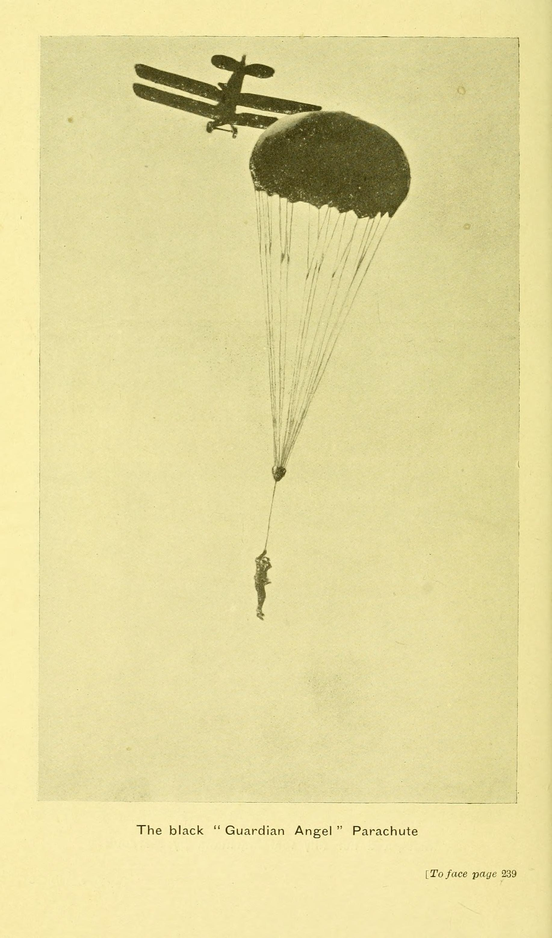 The horse, as comrade and friend : "festina lente" / by Everard R. Calthrop.